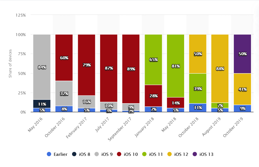 Historical iOS version distribution 2016-2020